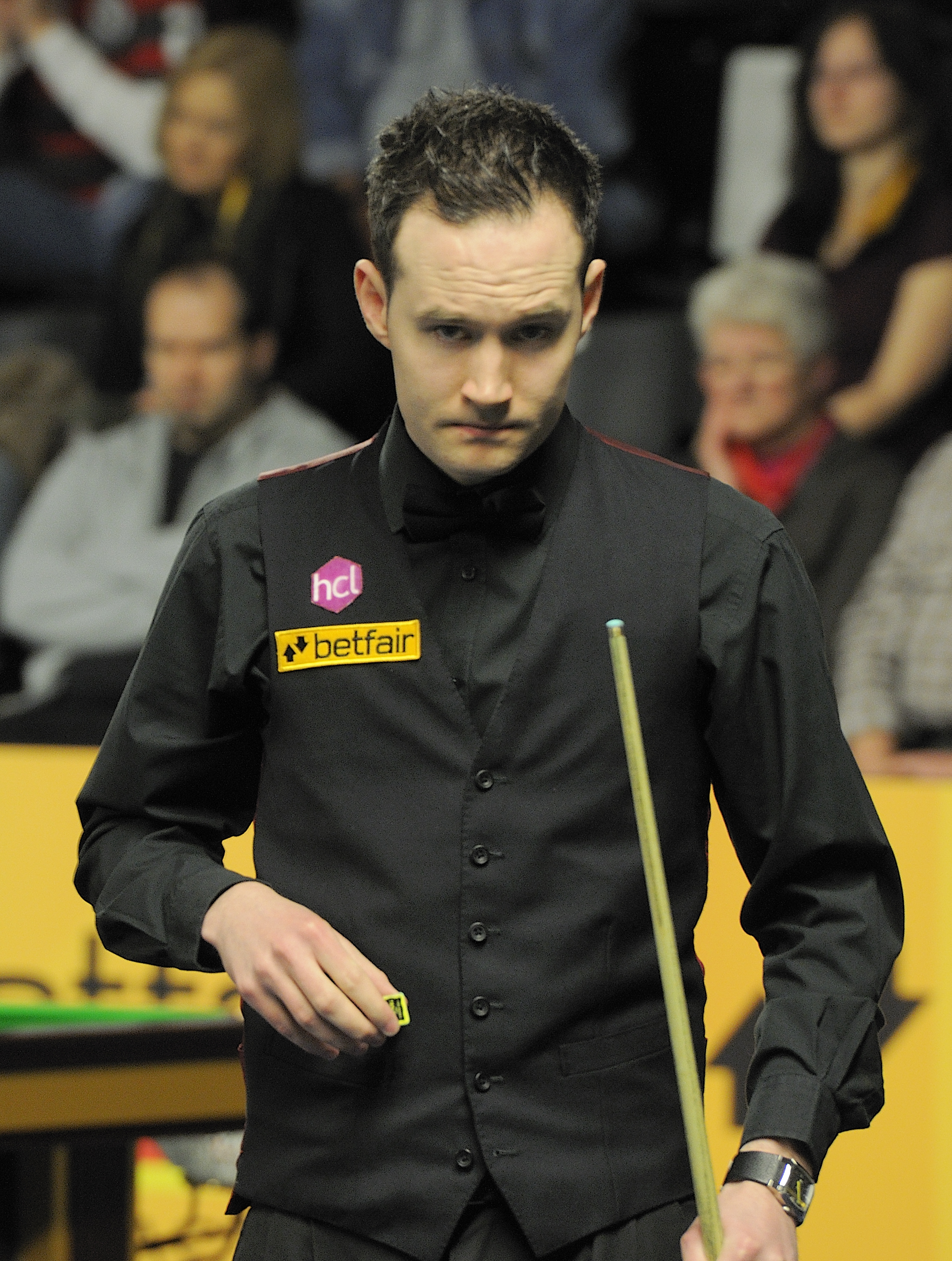 Picture taken in Berlin during the Snooker German Masters in 2013. Martin O’Donnell.